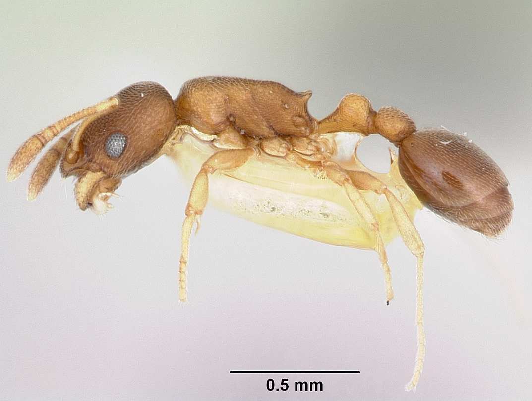 Profile view of ant Cardiocondyla minutior specimen casent0103436.